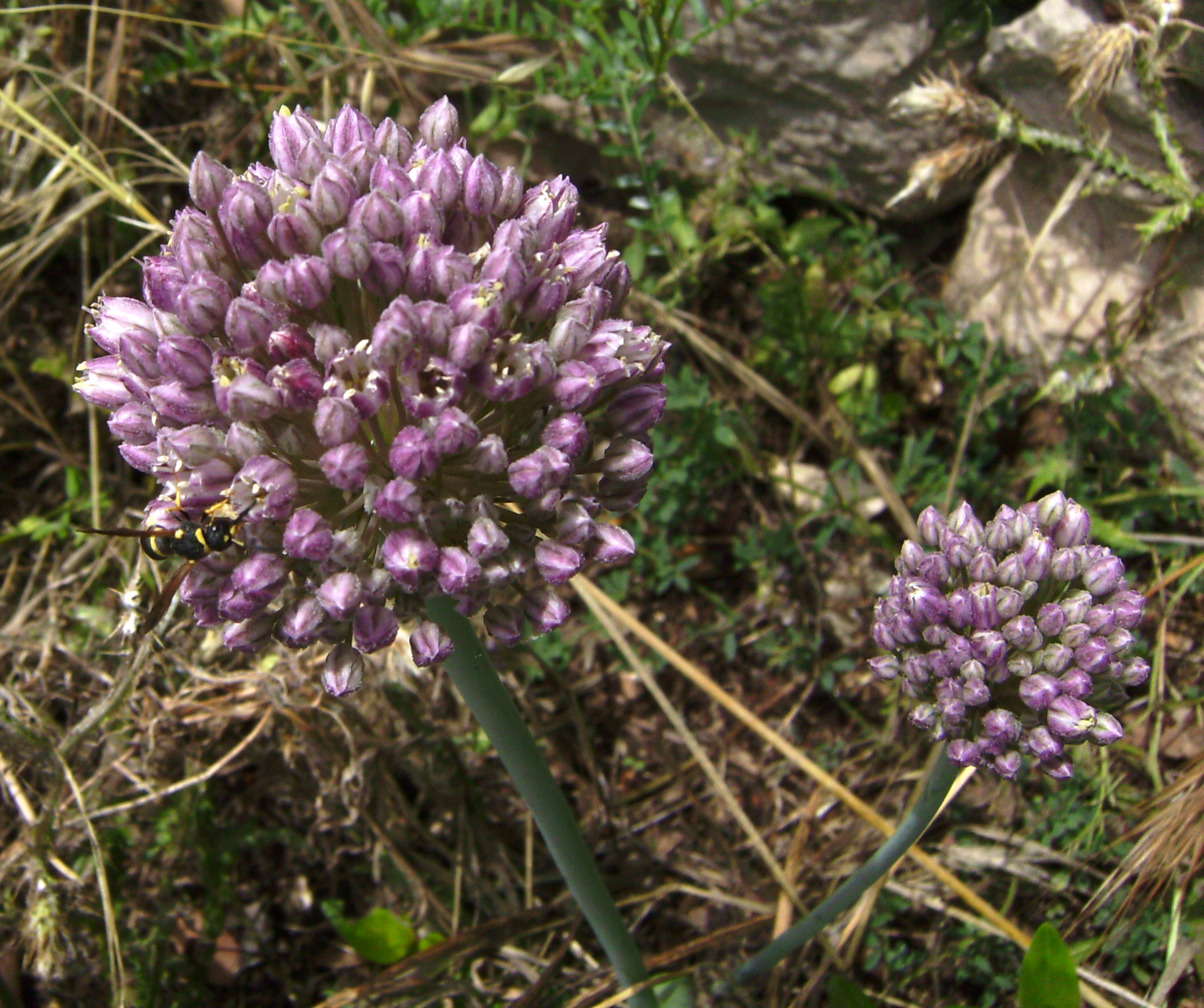 Allium scorodoprasum ssp. rotundum, flowers, Castelltallat, Catalonia